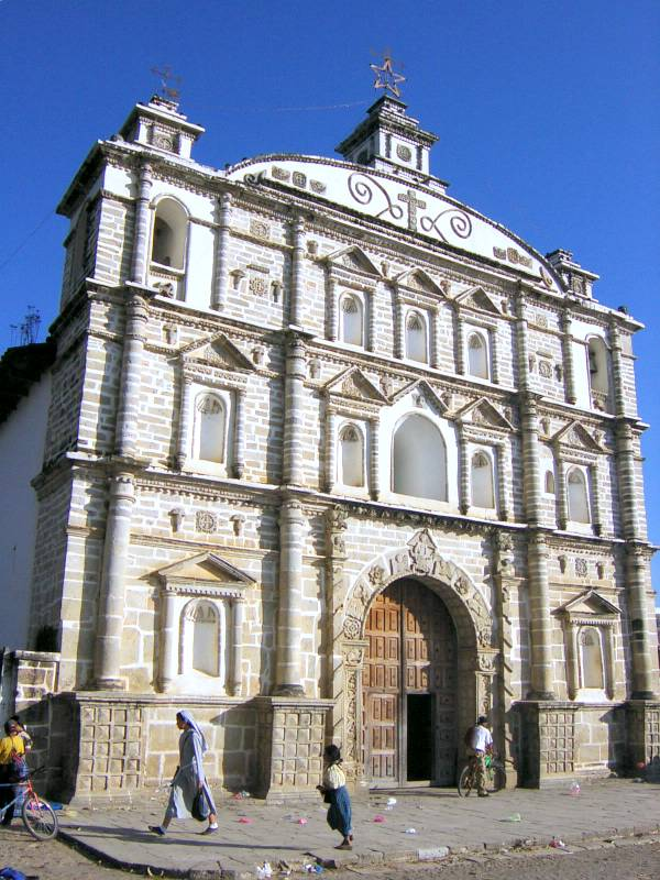 Church of Zacualpa, El Quiche, Guatemala